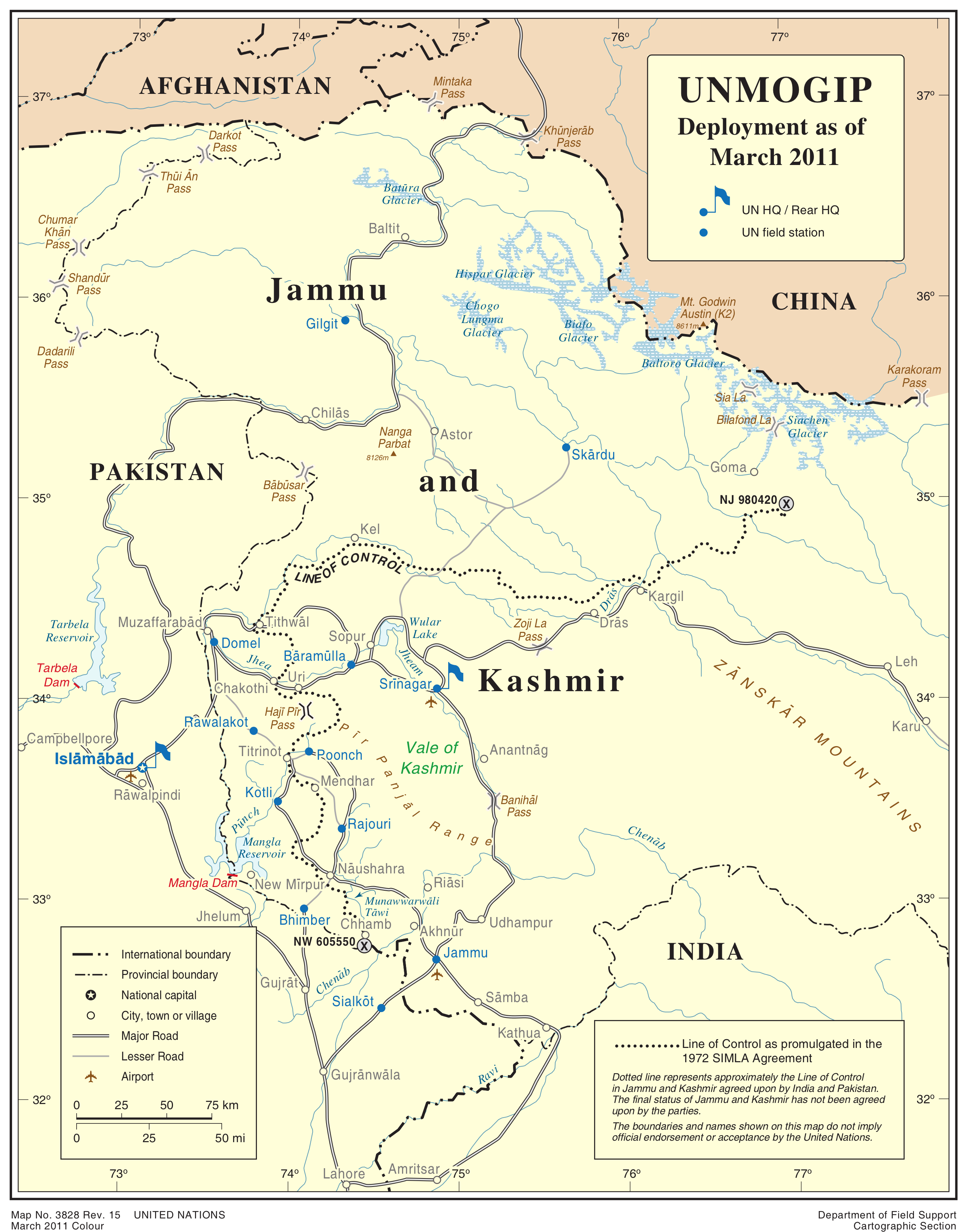 UNMOGIP deployment as of March 2011.